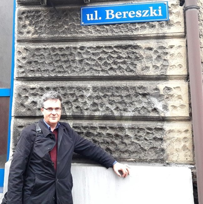 Ignacy Bereszko St., Będzin (Poland)